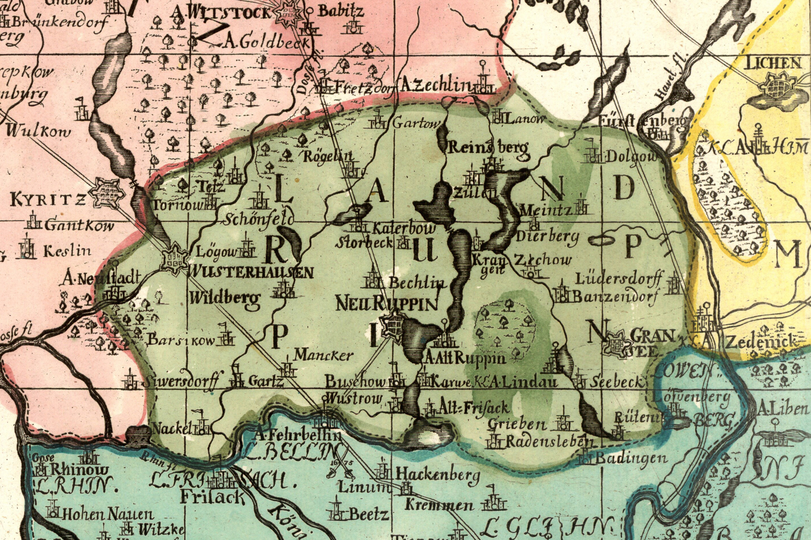 Map of the Ruppinscher Kreis (Land Ruppin), a district of the Margraviate of Brandenburg, 1724.